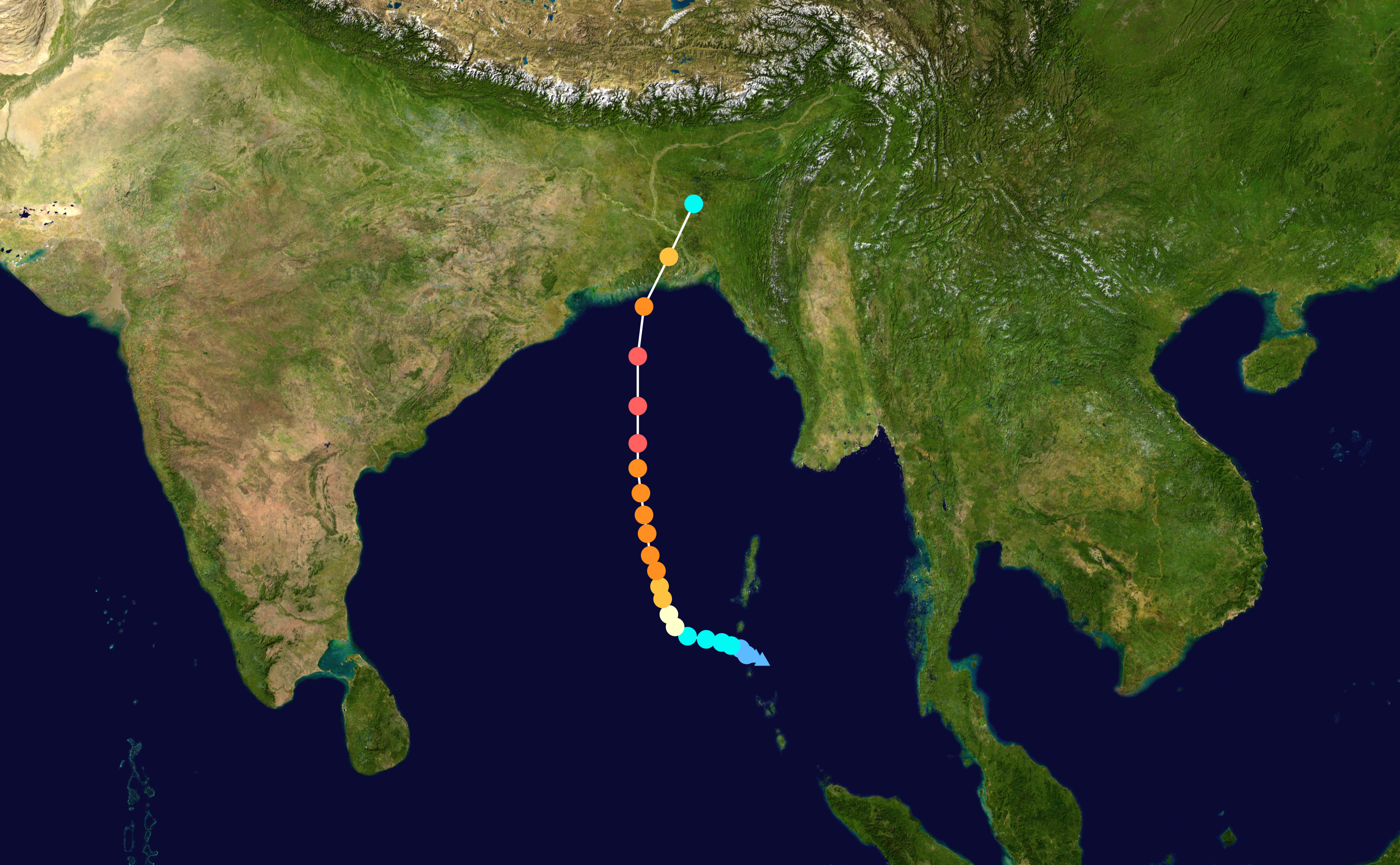 Track map of Extremely Severe Cyclonic Storm Sidr of the 2007 North Indian Ocean cyclone season. The points show the location of the storm at 6-hour intervals. The colour represents the storm's maximum sustained wind speeds as classified in the Saffir–Simpson scale (see below), and the shape of the data points represent the nature of the storm, according to the legend below. Saffir–Simpson scale Tropical depression≤38 mph≤62 km/h Category 3111–129 mph178–208 km/h Tropical storm39–73 mph63–118 km/h Category 4130–156 mph209–251 km/h Category 174–95 mph119–153 km/h Category 5≥157 mph≥252 km/h Category 296–110 mph154–177 km/h Unknown Storm type Tropical cyclone Subtropical cyclone Extratropical cyclone / Remnant low / Tropical disturbance / Monsoon depression